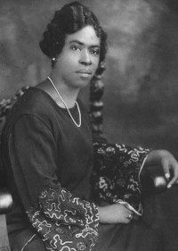 Minnie Cox